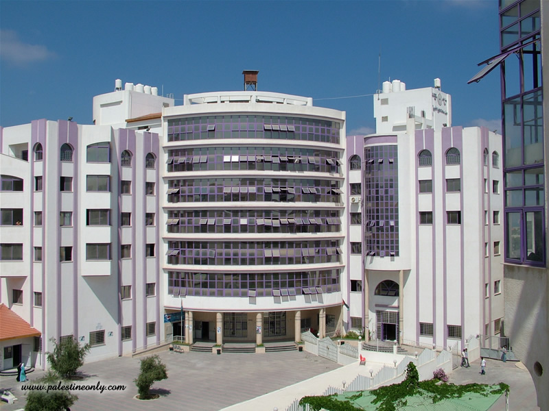 Al-Azhar-Universität